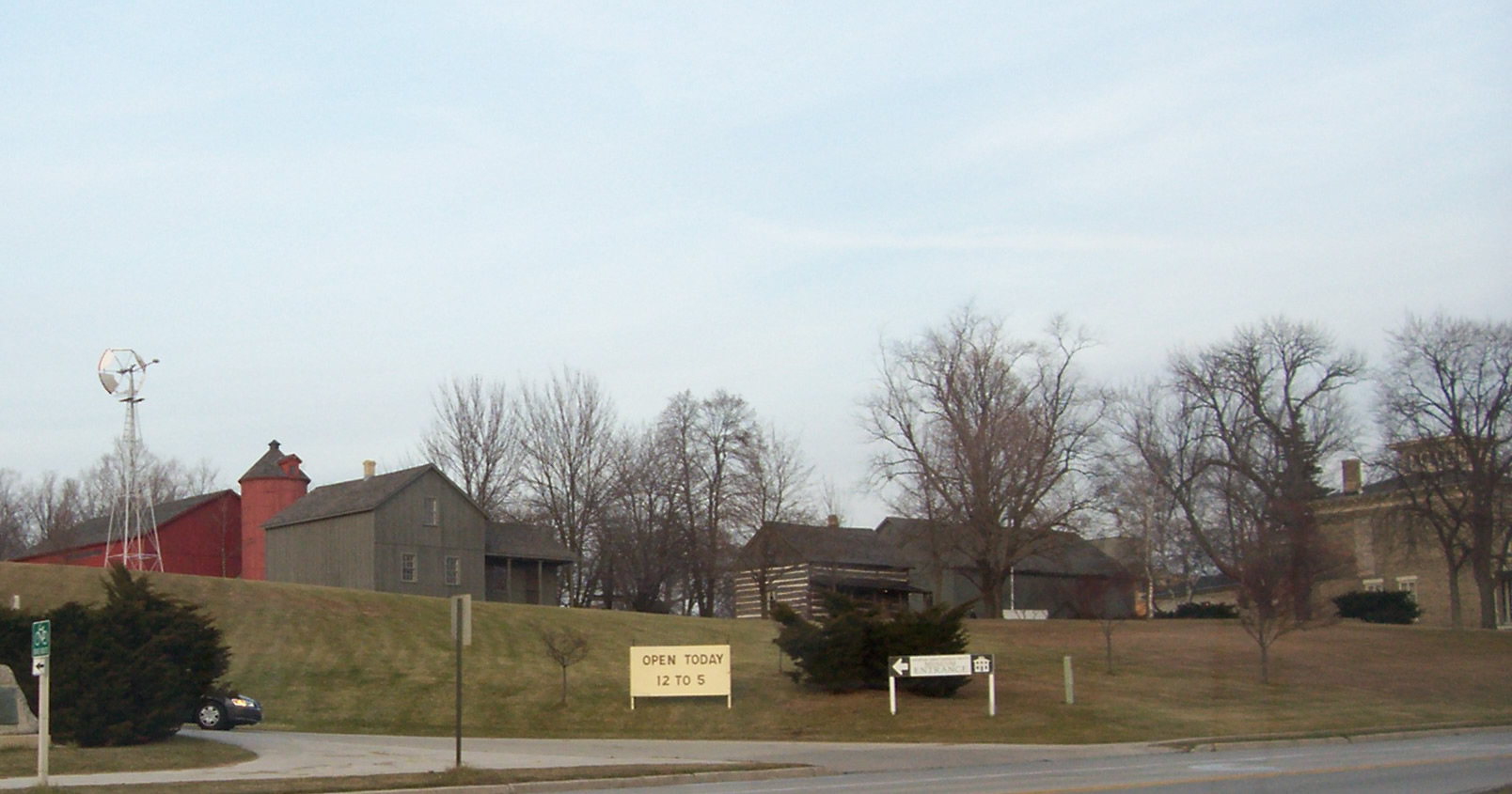 The Sheboygan County Historic Museum in Sheboygan, Wisconsin, USA.